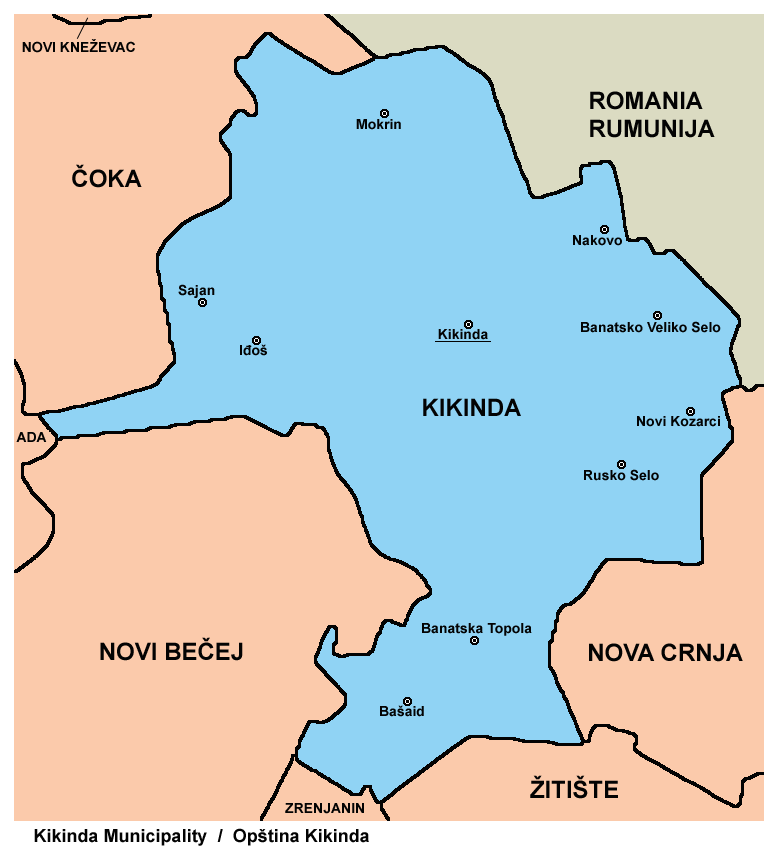 map of Kikinda municipality source: self made